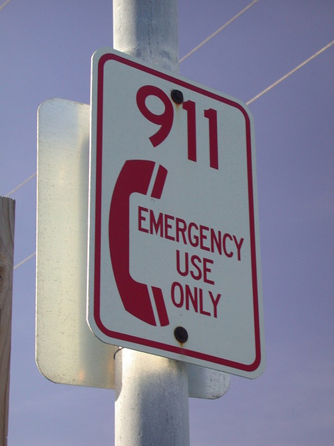 911 sign Camera: Nikon E995 License on Flickr (2011-01-09): CC-BY-SA-2.0 Flickr tags: Sign, Fort Island Gulf Beach, Public Safety